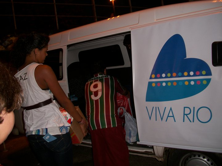 Viva Rio food collection